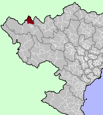 Phong Tho District, Lai Chau Province, Vietnam.